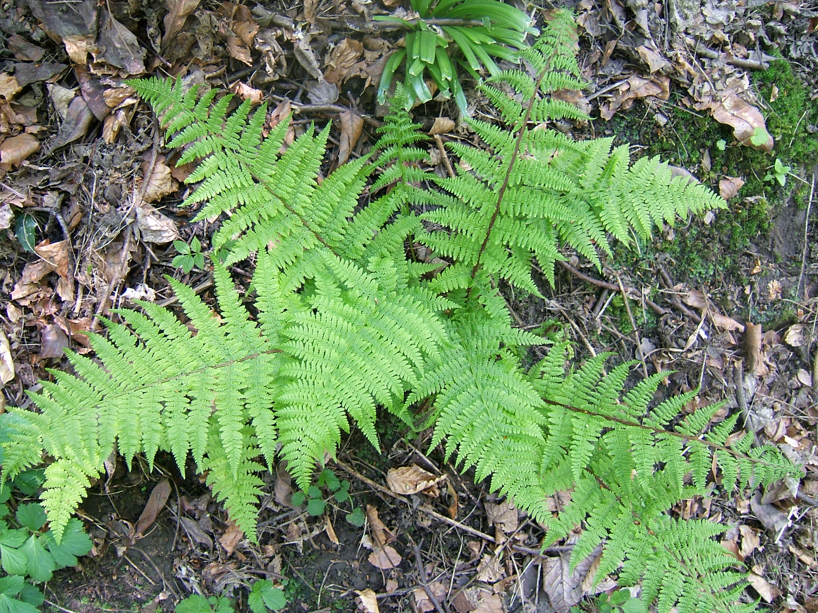 Unidentified fern at Cambridge Botanic Garden